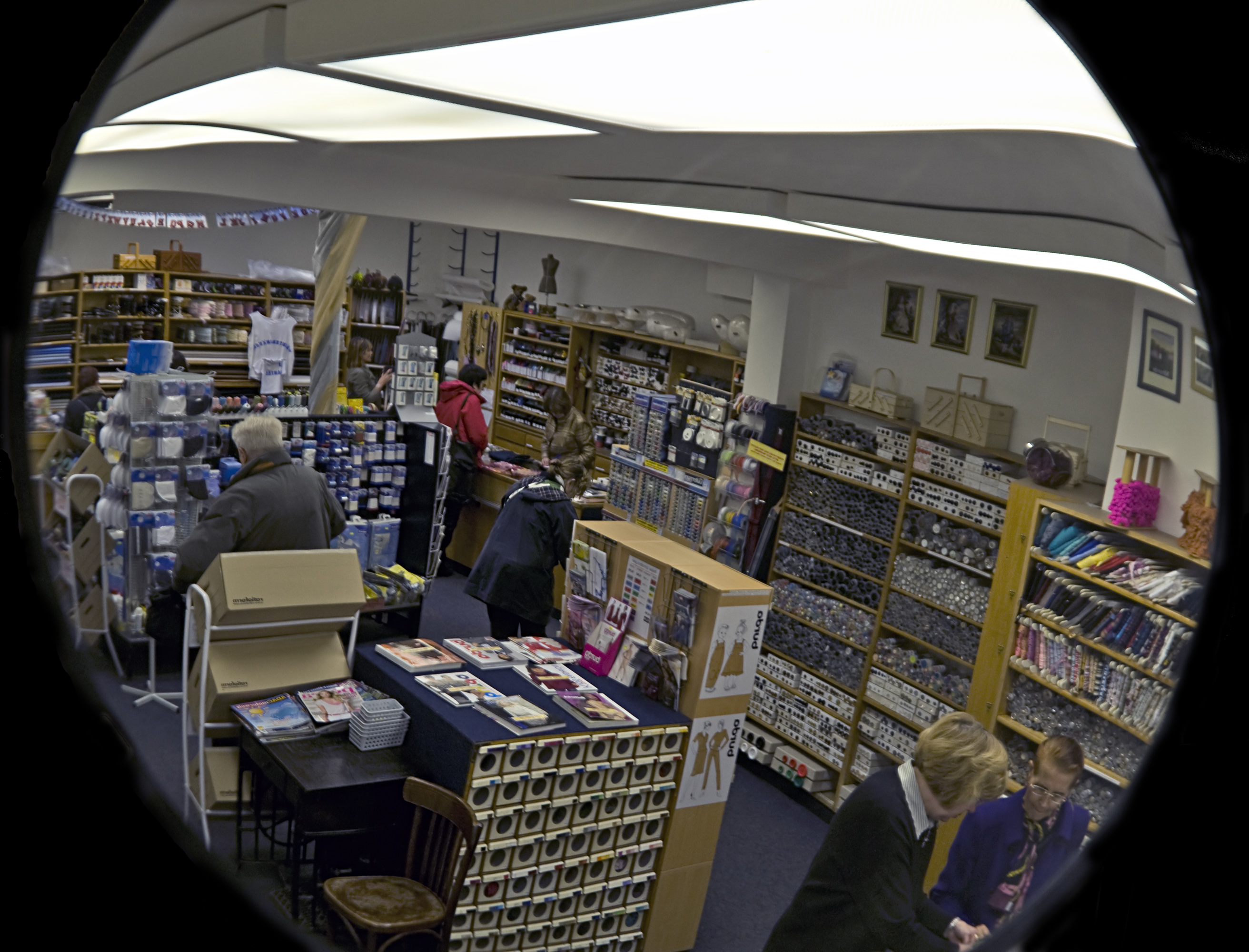 Haberdashery W. Wächterhäuser in the Töngesgasse 39 in Frankfurt am Main